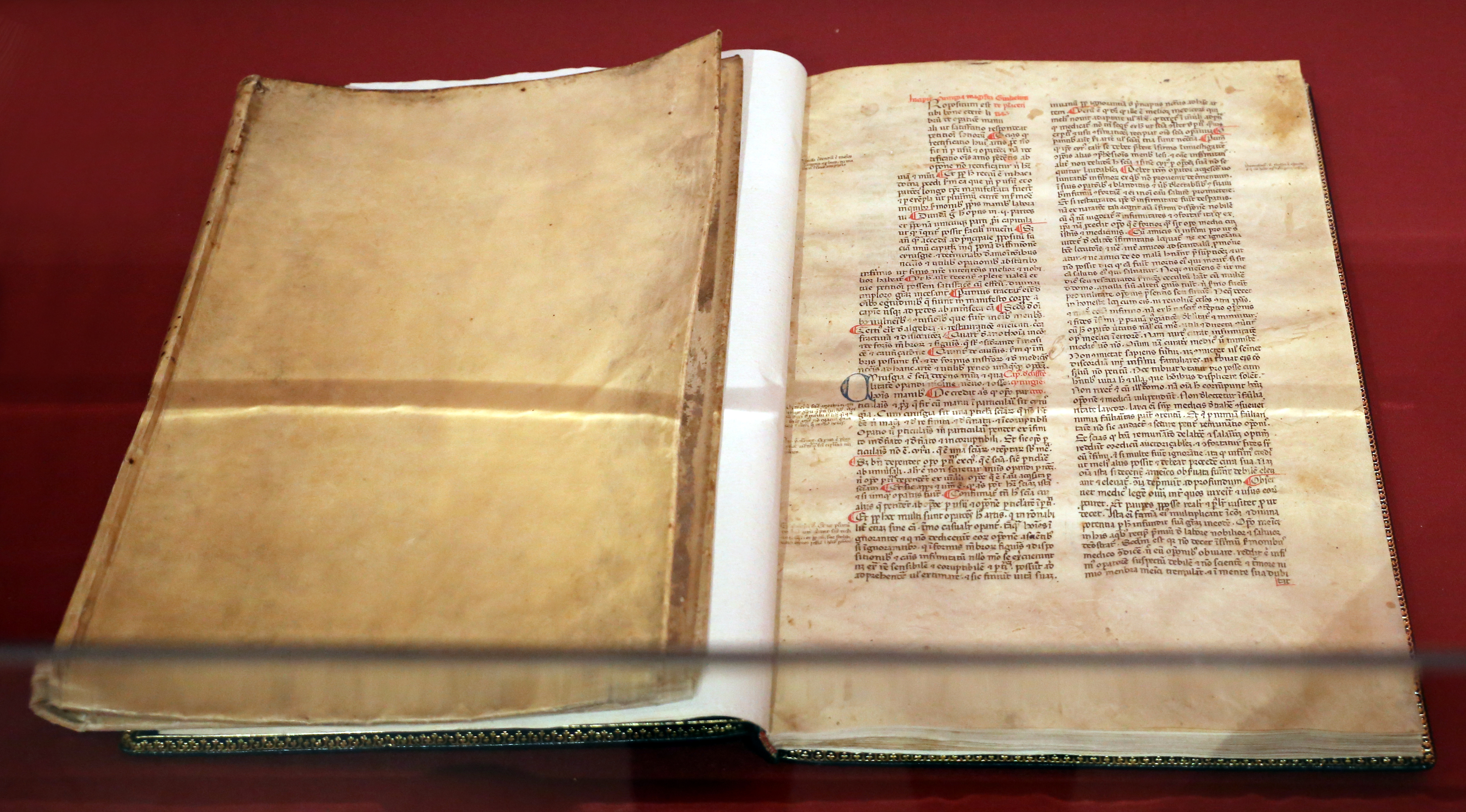 La Tutela Tricolore (2016 exhibition)